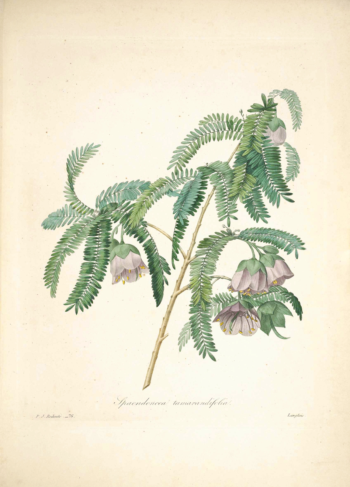 From the Swallowtail Garden Seeds collection of botanical photographs and illustrations. We hope you will enjoy these images as much as we do.